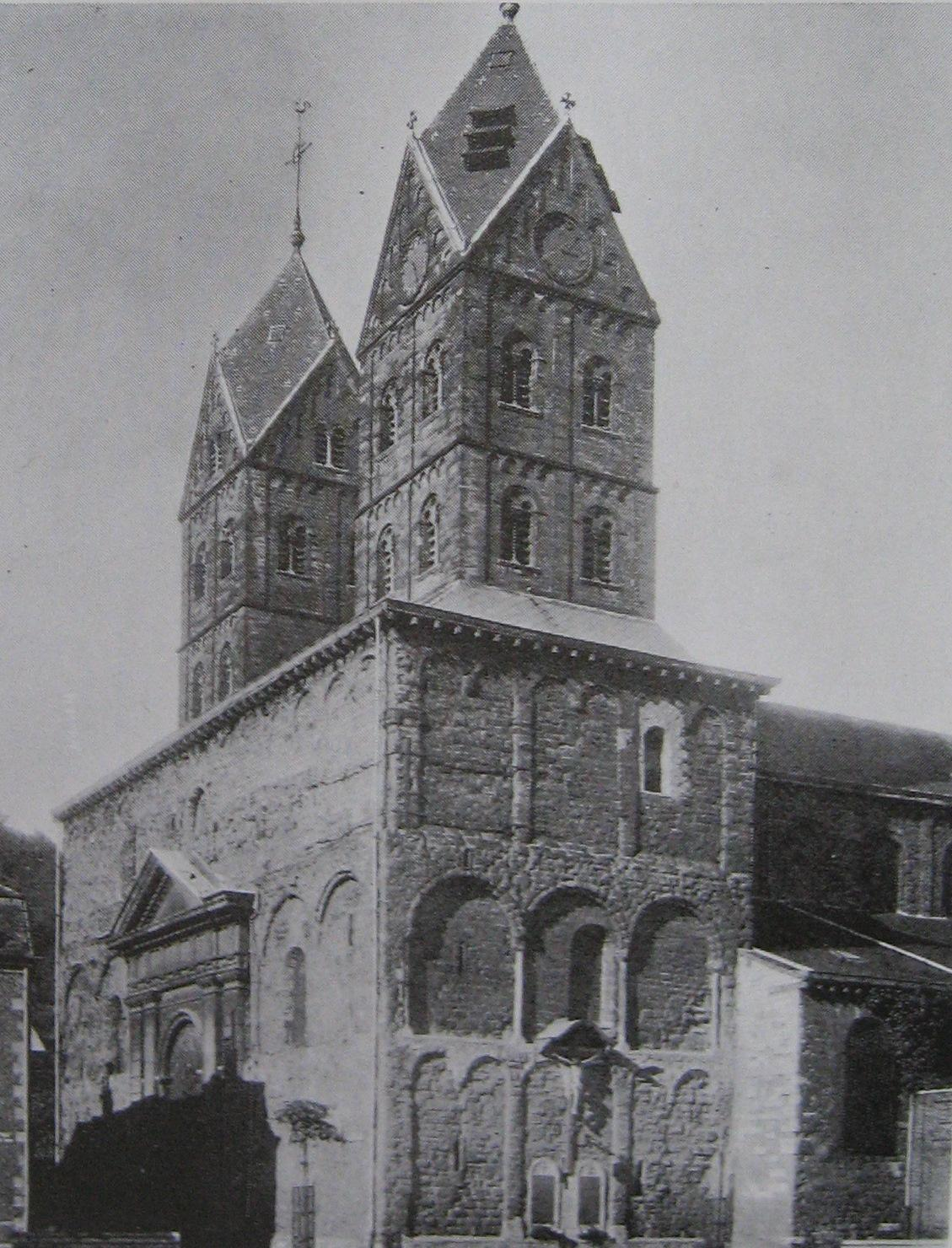 Westwork of StBartholomew's Church in Liège seen from the south, ca. 1900